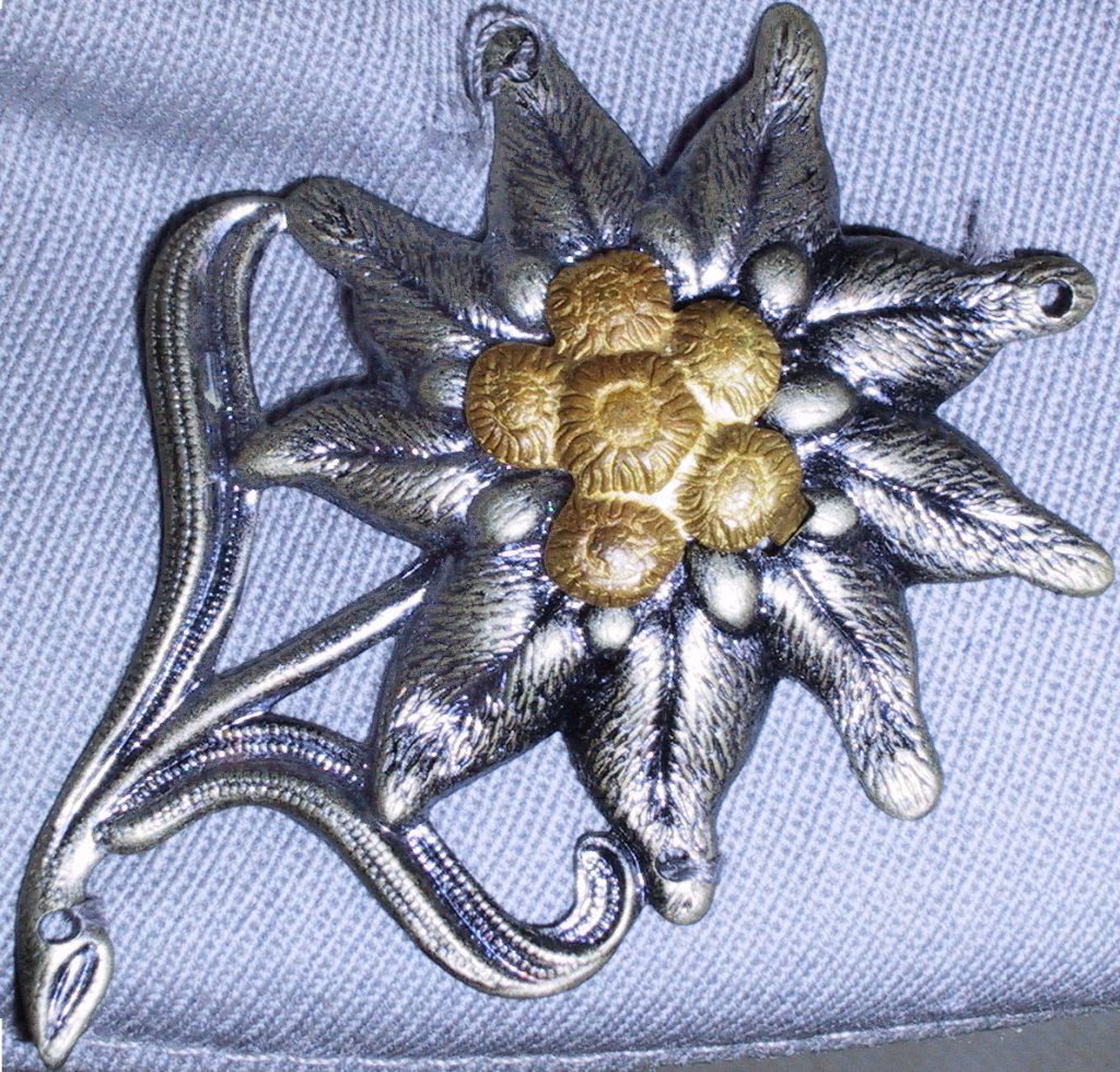 Mountain troops insignia of Austria, Germany and Poland